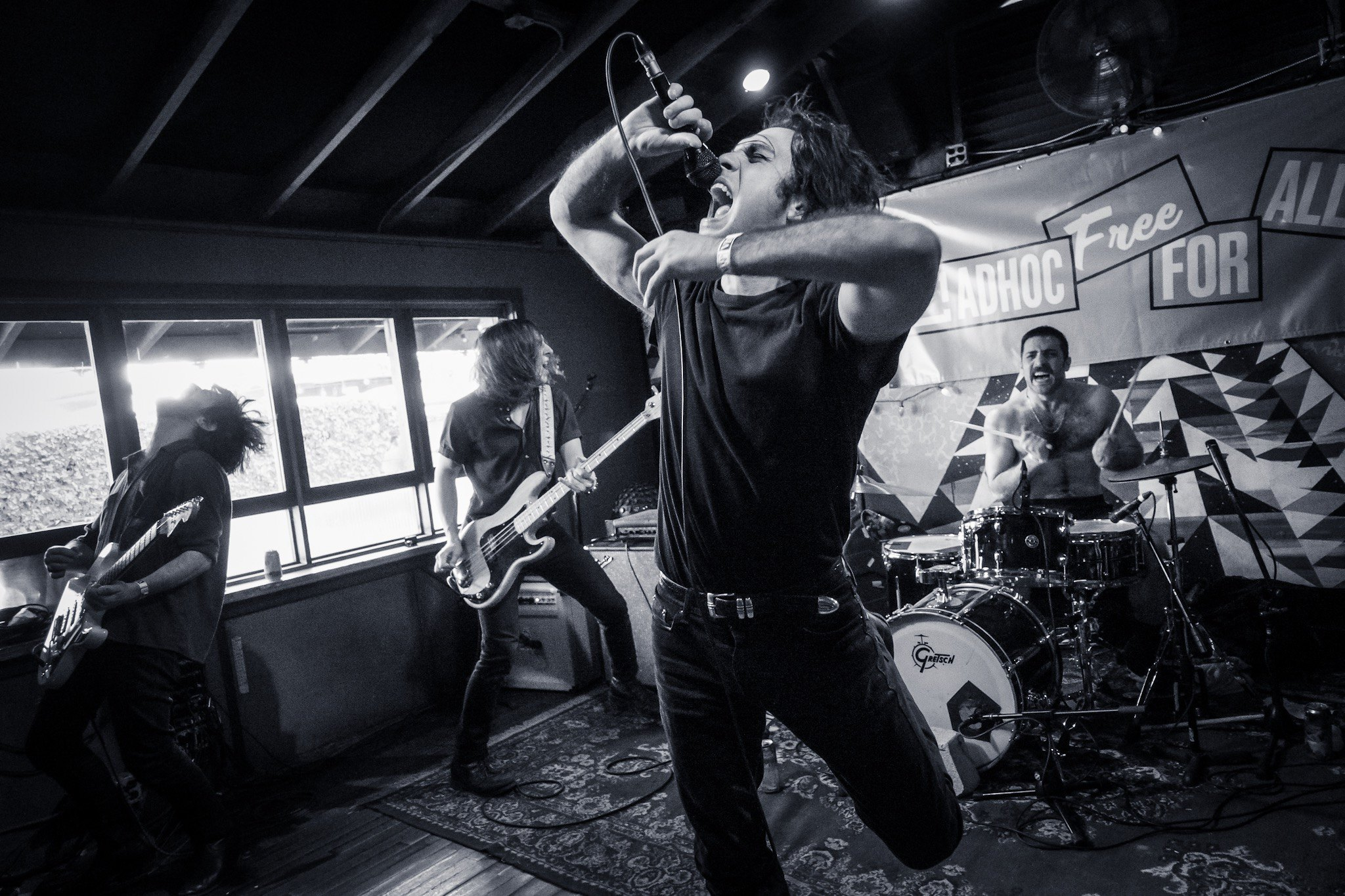 Bambara performing at SXSW on March 14, 2019. Photograph by Paul Hudson.